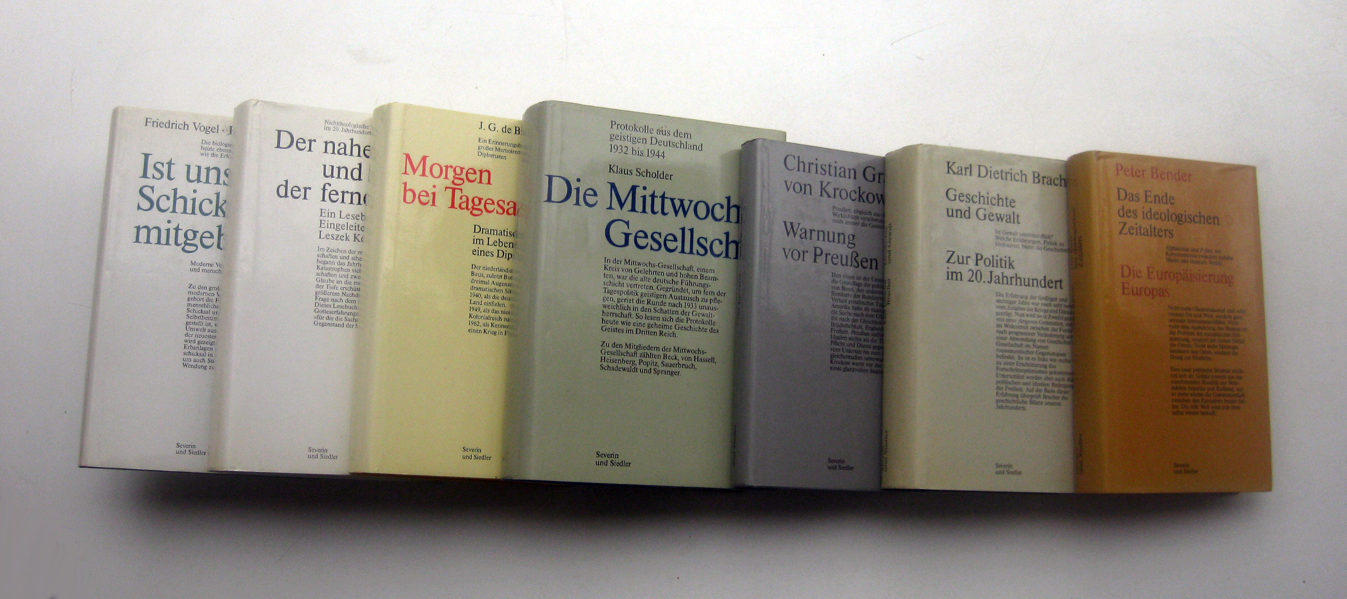 Books designed by Otl Aicher for Severin &Siedler